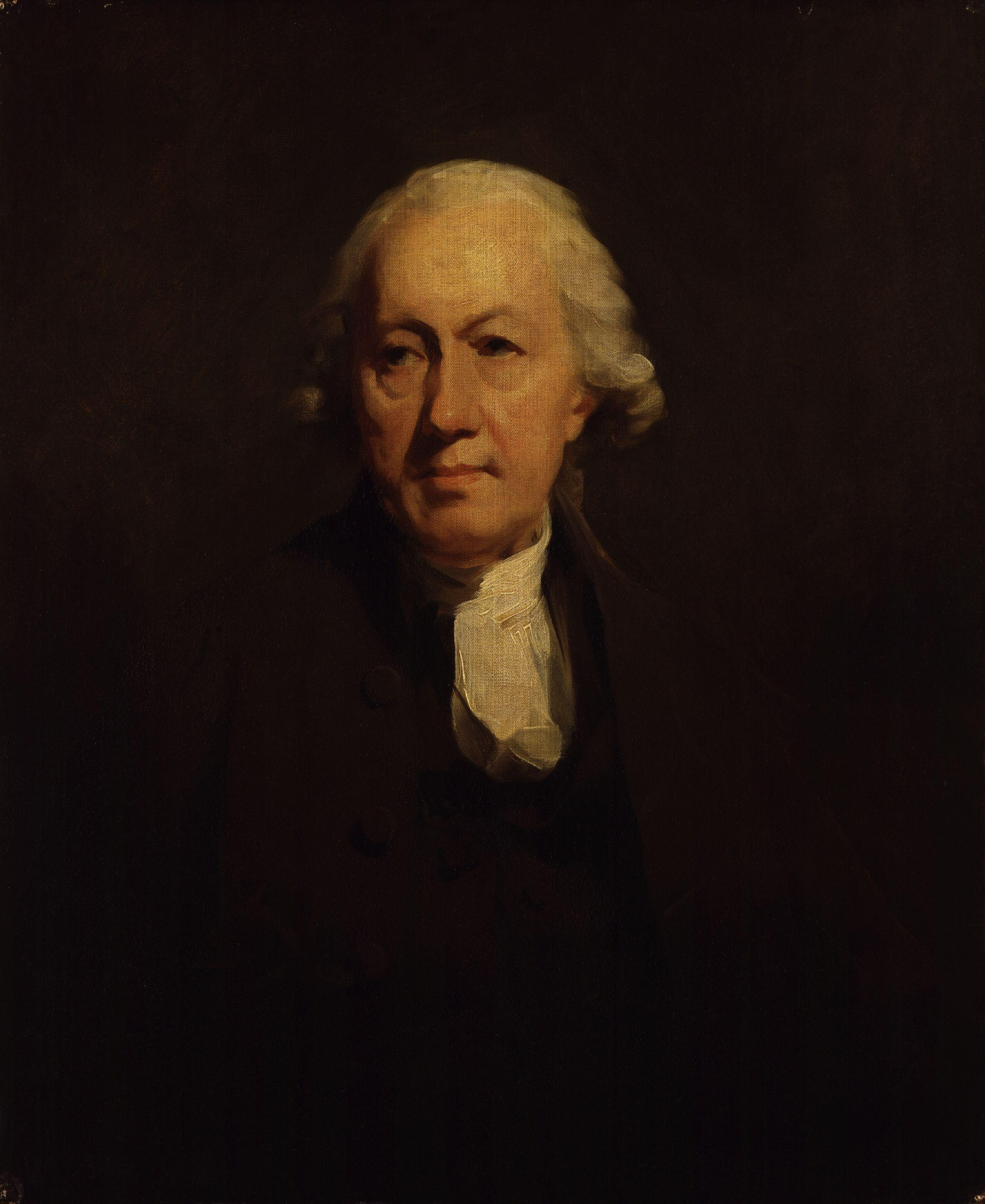 John Home, by Sir Henry Raeburn (died 1823). All images in this batch have been confirmed as author died before 1939 according to the official death date listed by the NPG.